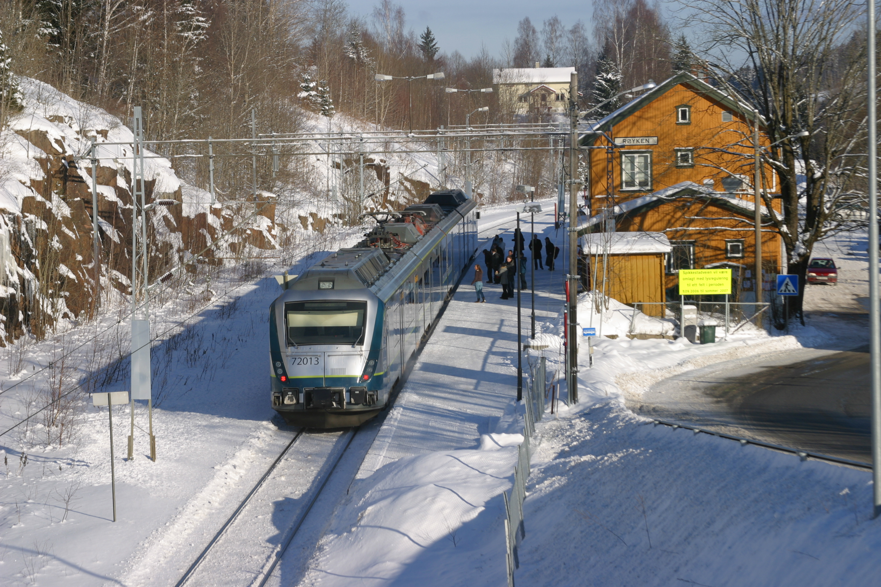 Train 72013 at Røyken railway station (Norway)